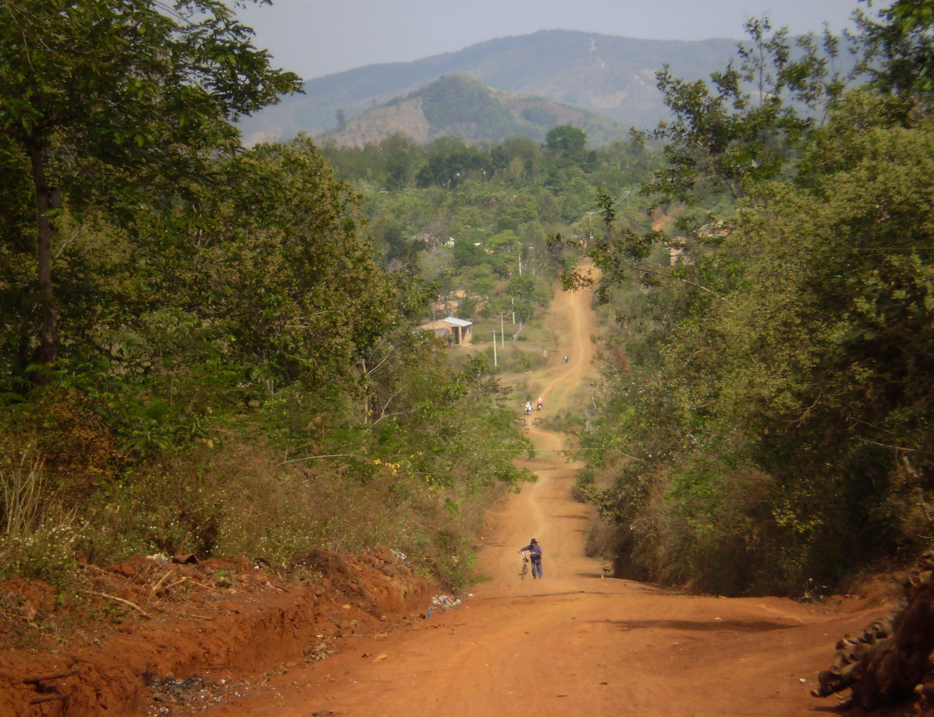 Dak Lak Province, Central Highlands of Vietnam